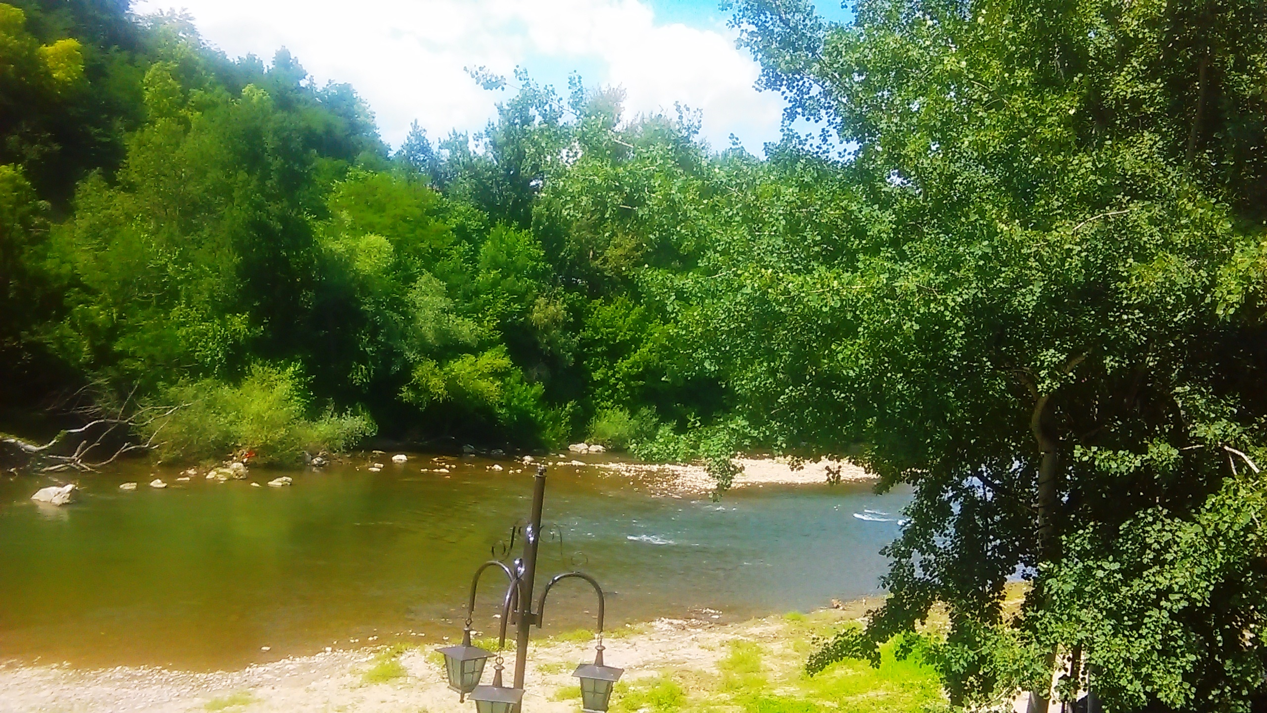 Osam river in Lovech